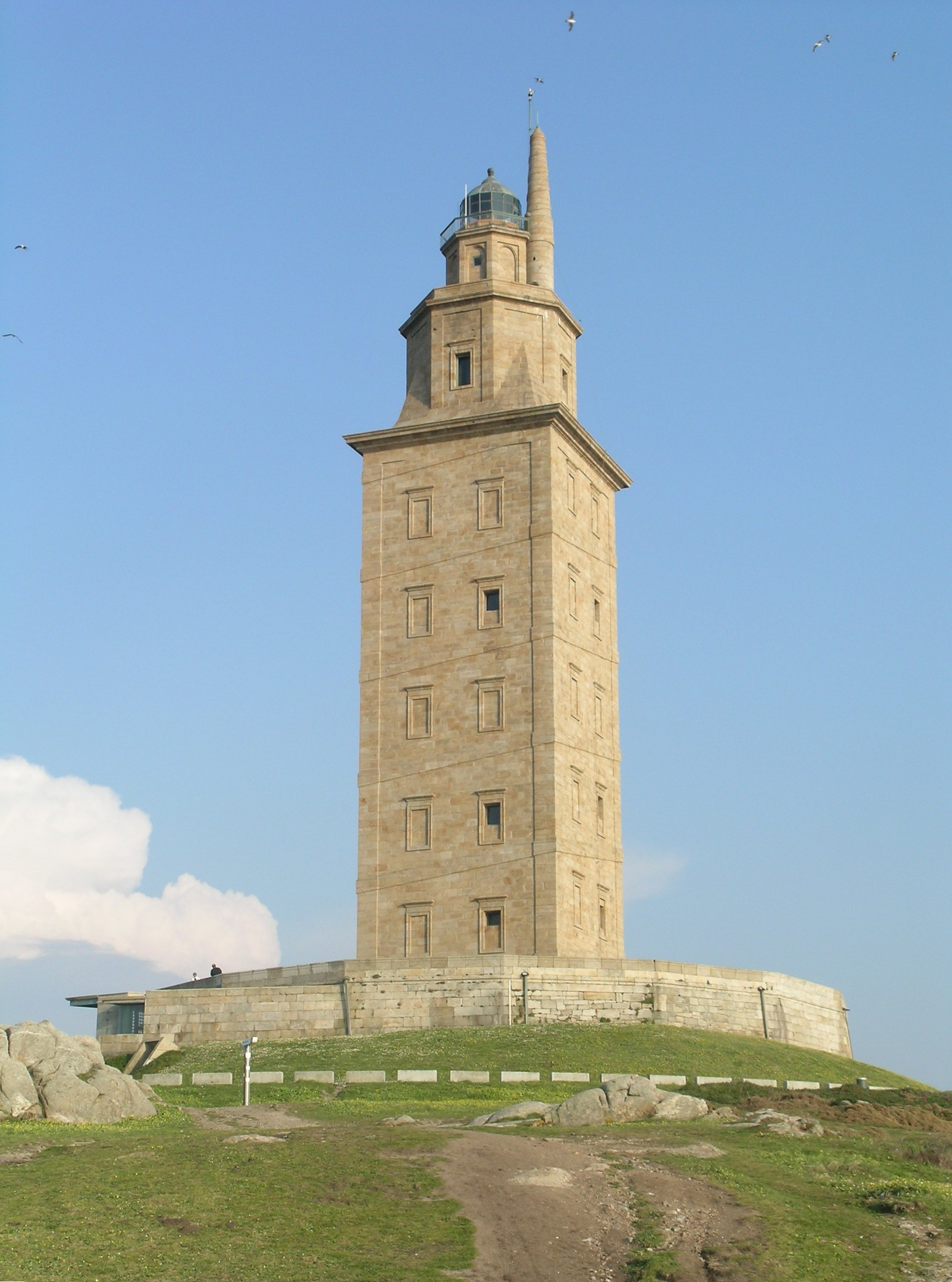 Photo of the Hercules tower located in A Coruña (Galicia, Spain). I took it at the beginning of the sunset, so the sky is still blue but the light has a nice orange-like hue.